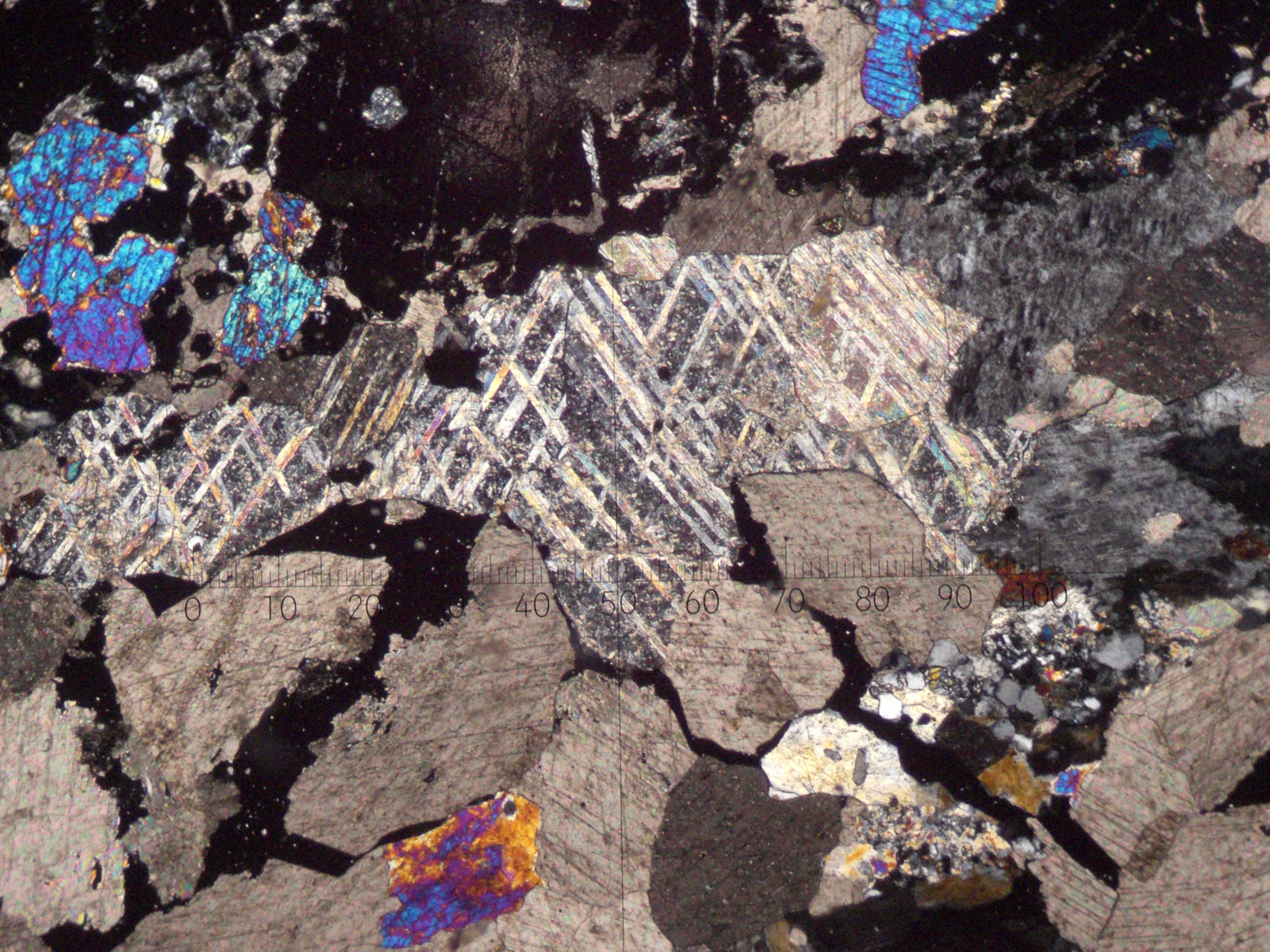 Metamorphic rock Skarn in microscope. Two nicols.